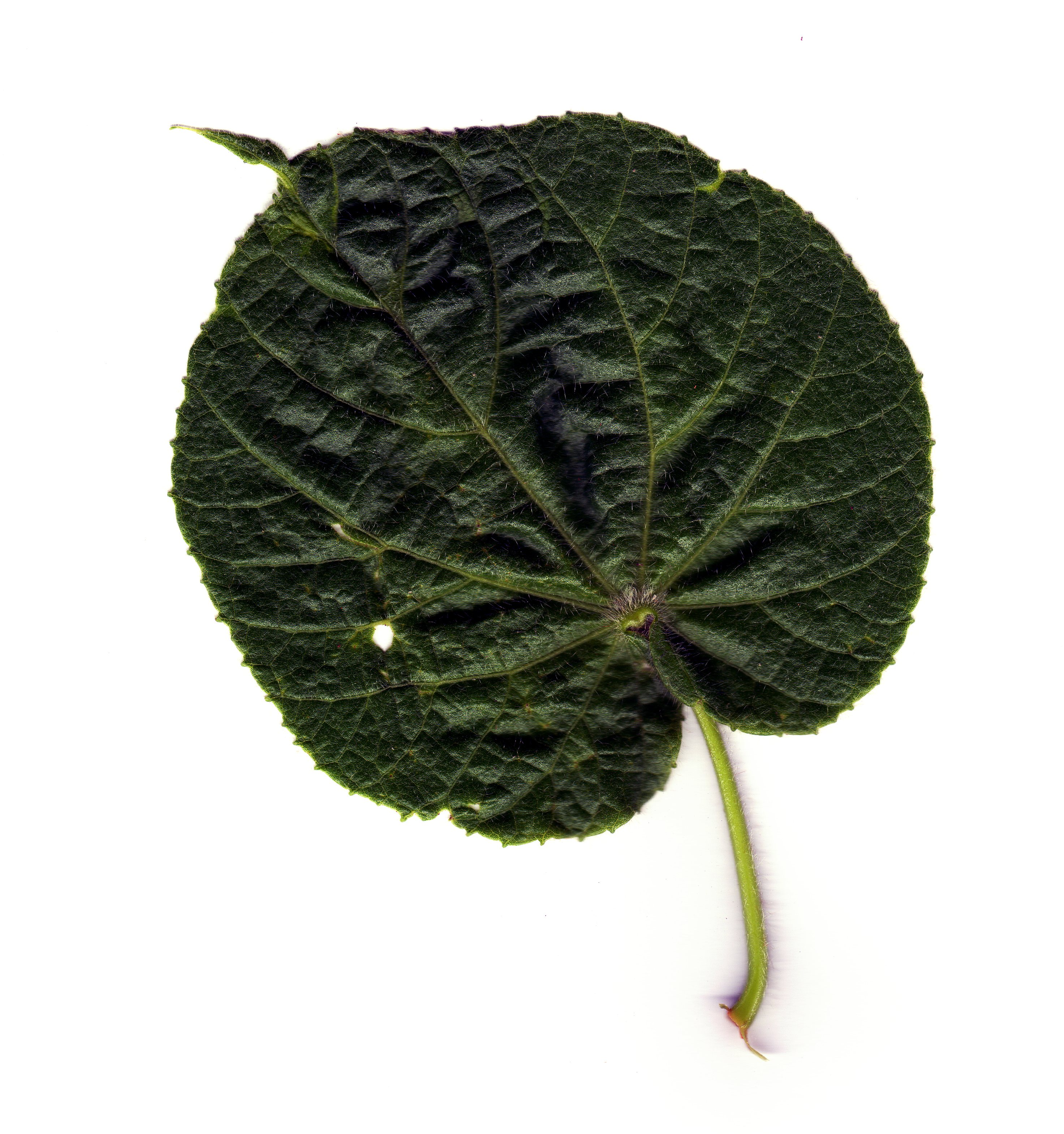 Scanned leaf of Dombeya pilosa